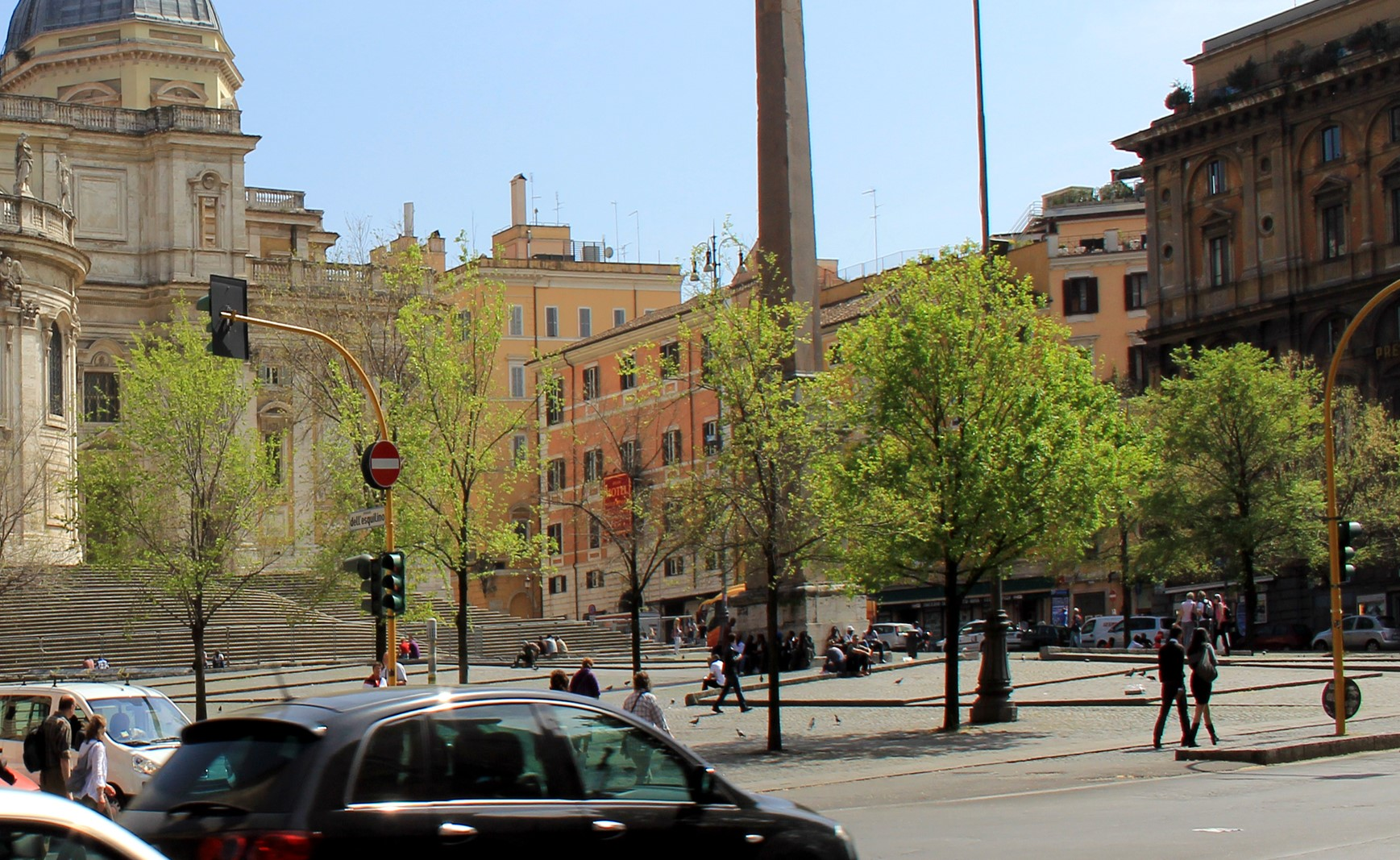 Palazzo Imperiali Borromeo (crop)